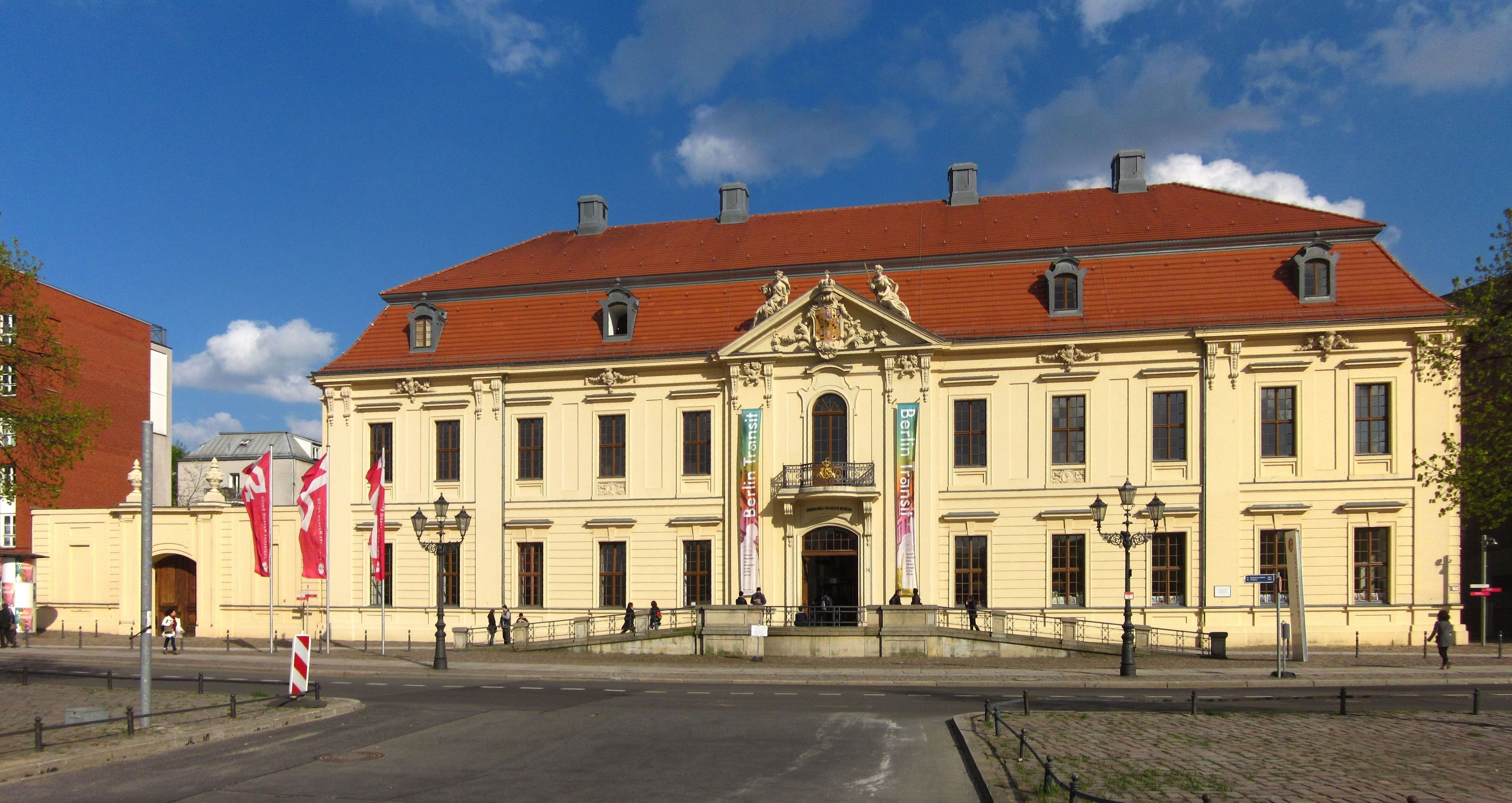 The former Kollegienhaus, now old building of the Jewish Museum Berlin with entrance to the museum, at Lindenstraße No. 14 in Berlin-Kreuzberg. The building was constructed from 1733 to 1735 to a design by Philipp Gerlach. It has been designated a historic landmark.